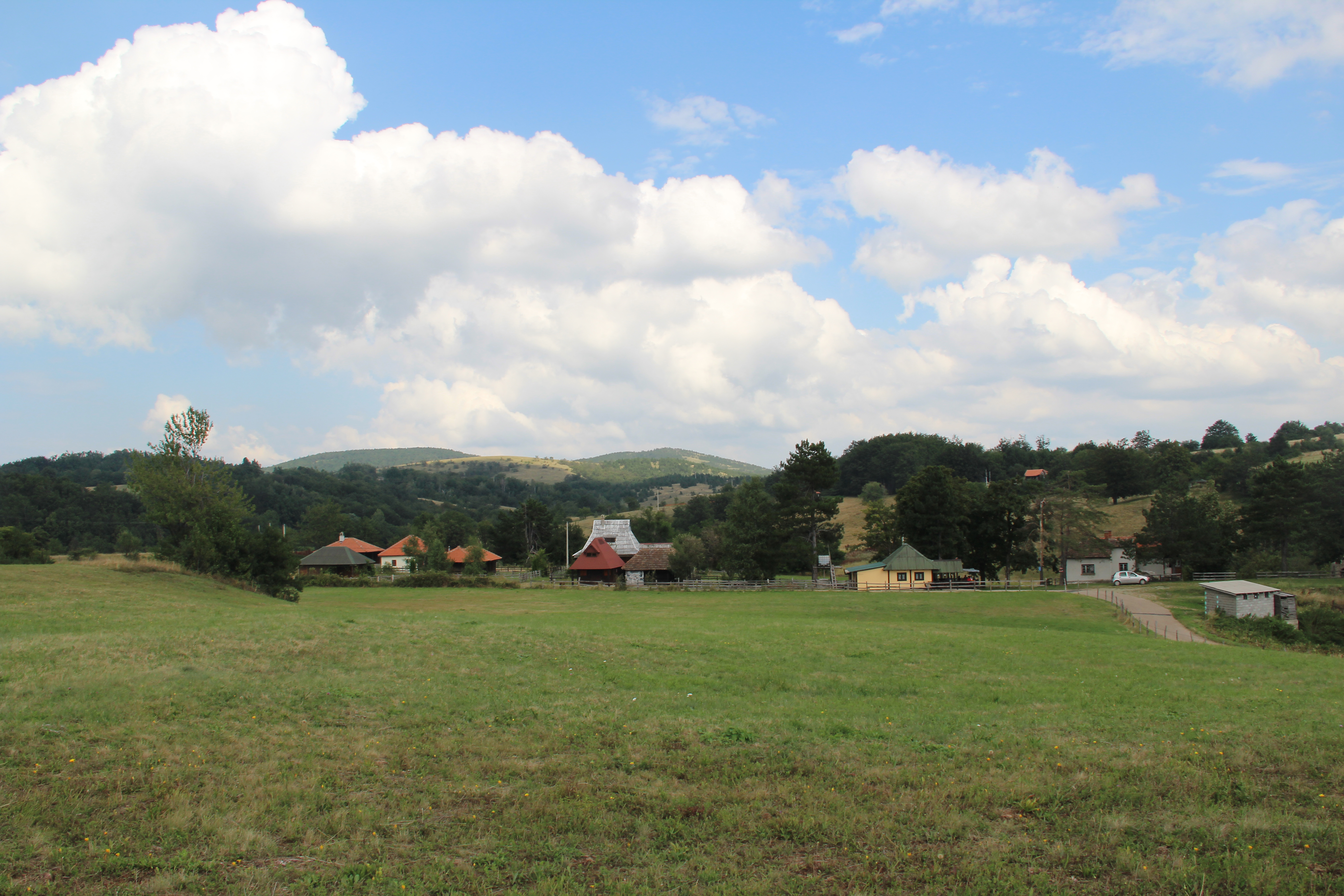 Suvobor - Western Serbia - city Ravna Gora - Complex on Ravna Gora 1